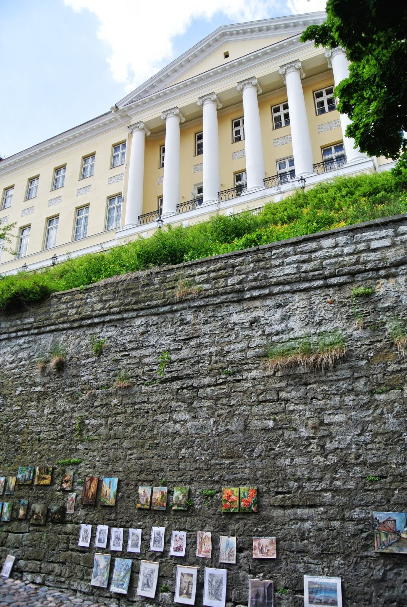 Old Town of Tallinn, Tallinn, Estonia